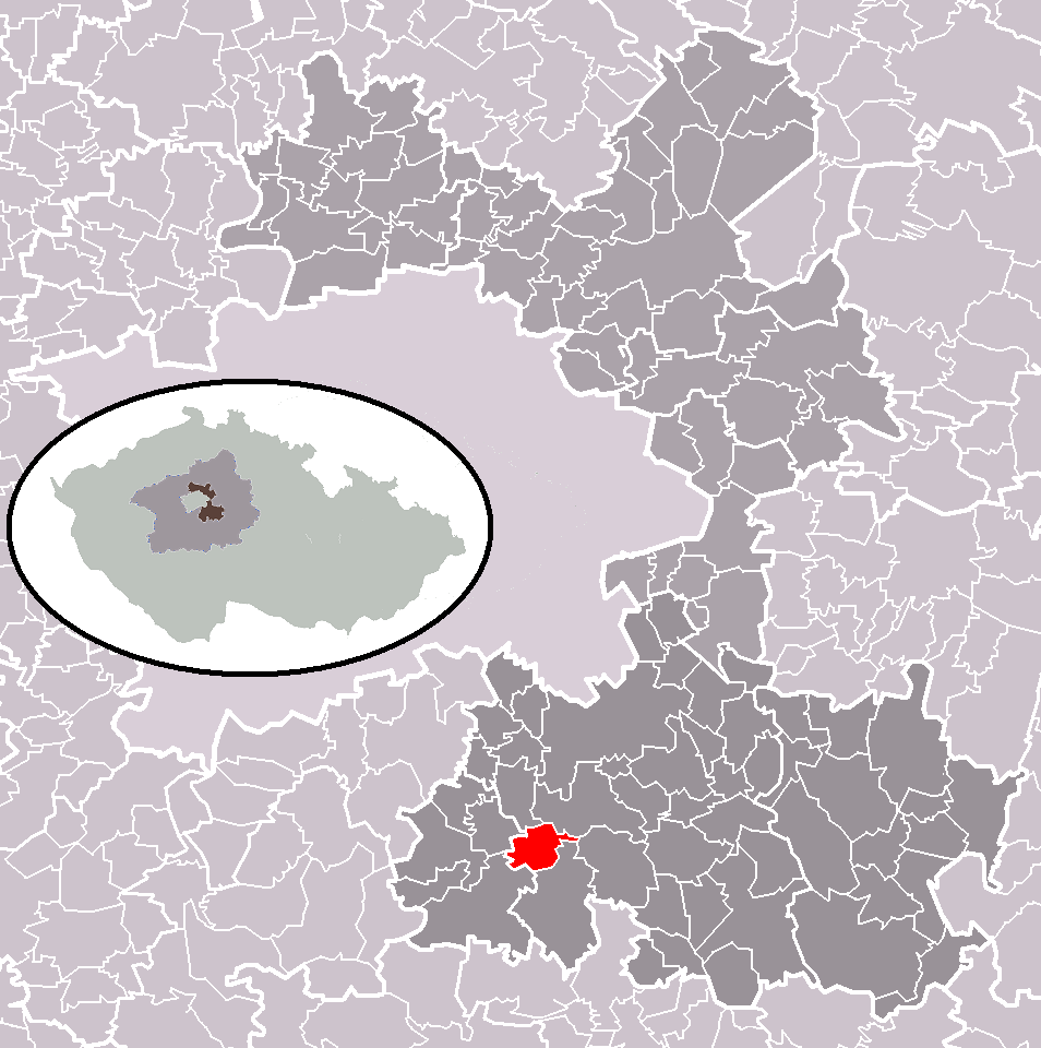 Location of Petříkov municipality within Prague-East District and administrative area of Říčany as a Municipality with Extended Competence.